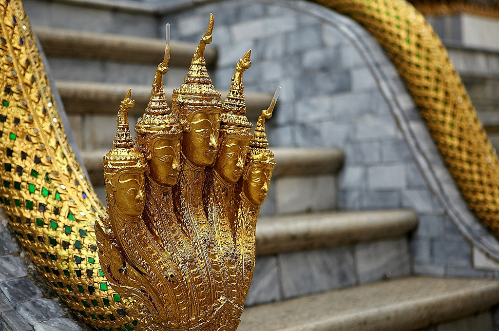 Green and Gold